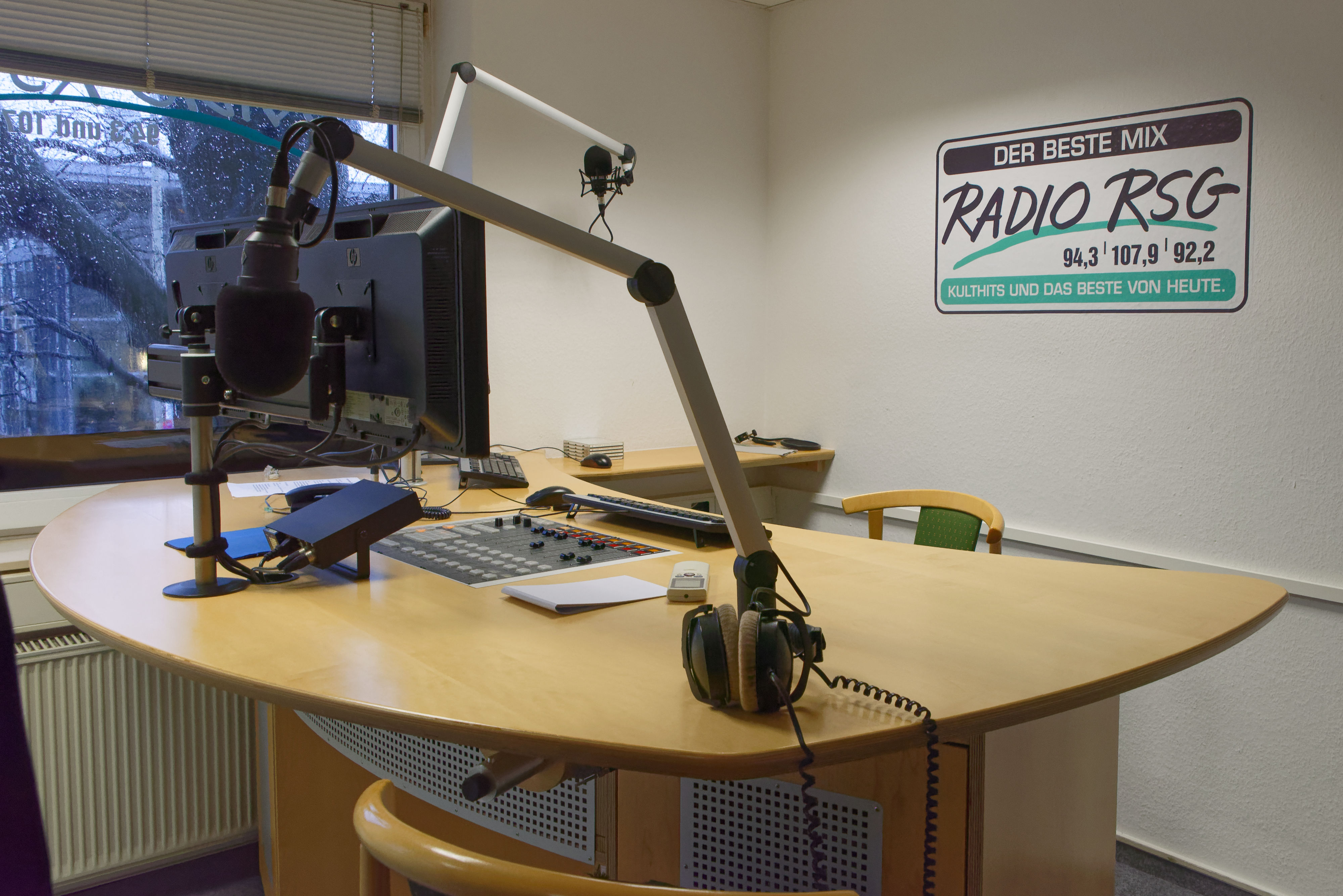 Blick ins RSG-Studio